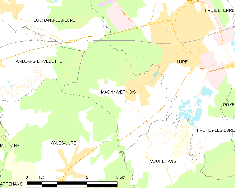 Map of French municipality